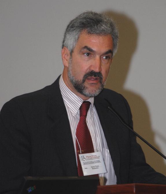 Daniel Pipes at the American Freedom Alliance conference at USC